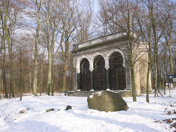 Loggia Alexandria on Böttcherberg in Berlin-Wannsee, Germany